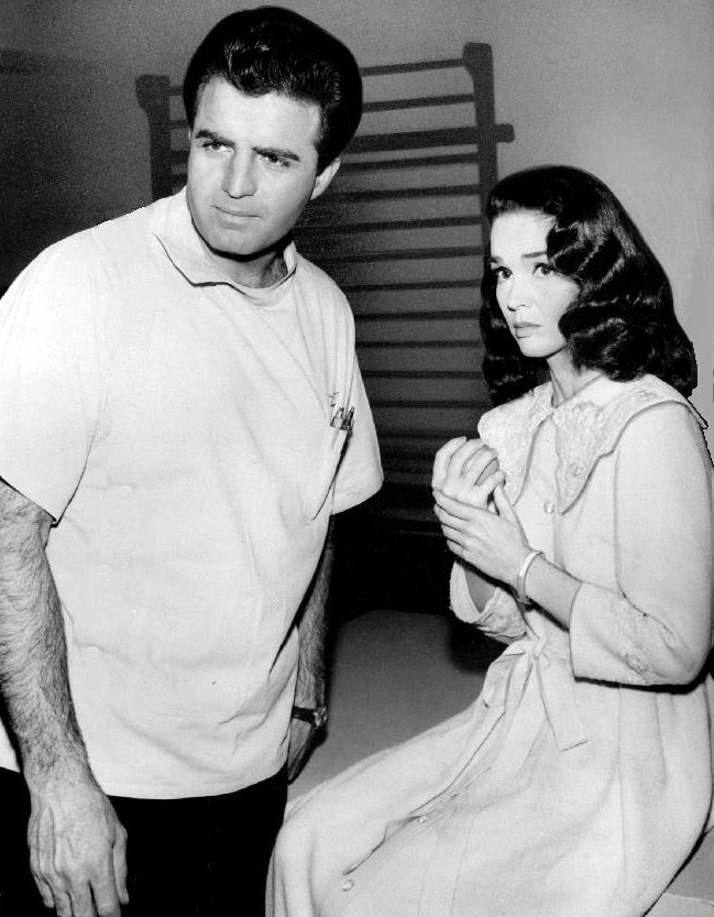 Photo of Vincent Edwards as Ben Casey and guest star Kathryn Crosby (second wife of Bing) from the television program Ben Casey.